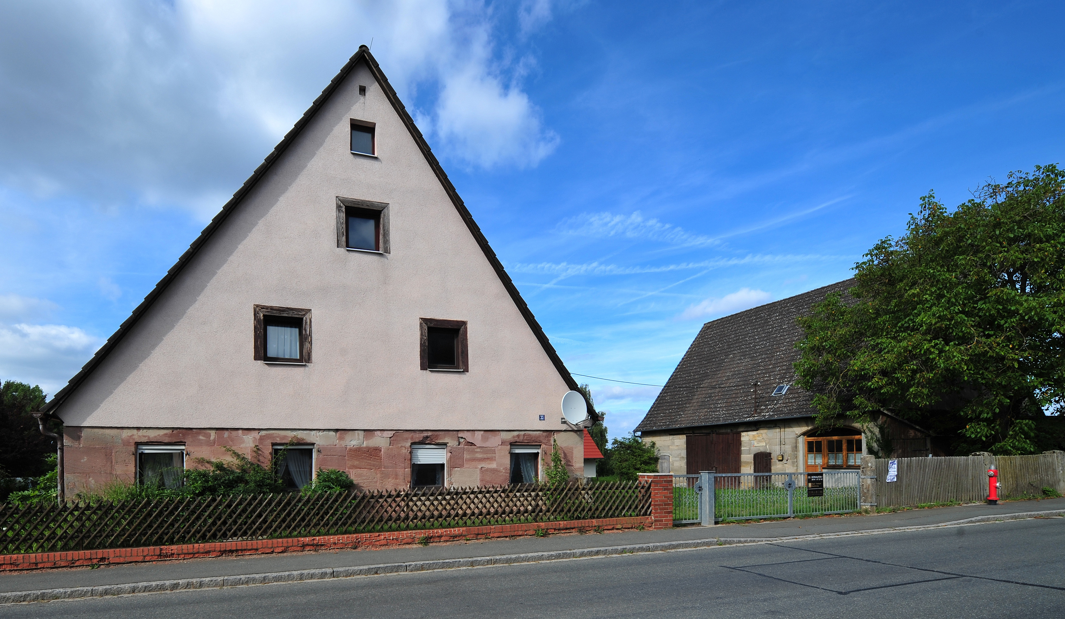 Kleingeschaidt 33, Heroldsberg This is a photograph of an architectural monument.